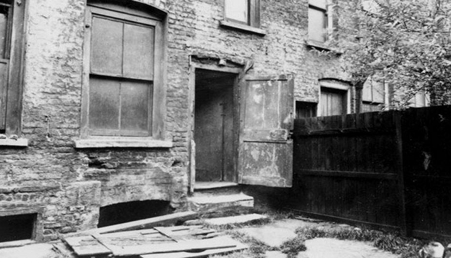 29 Hanbury Street, where Annie Chapman's body was found.